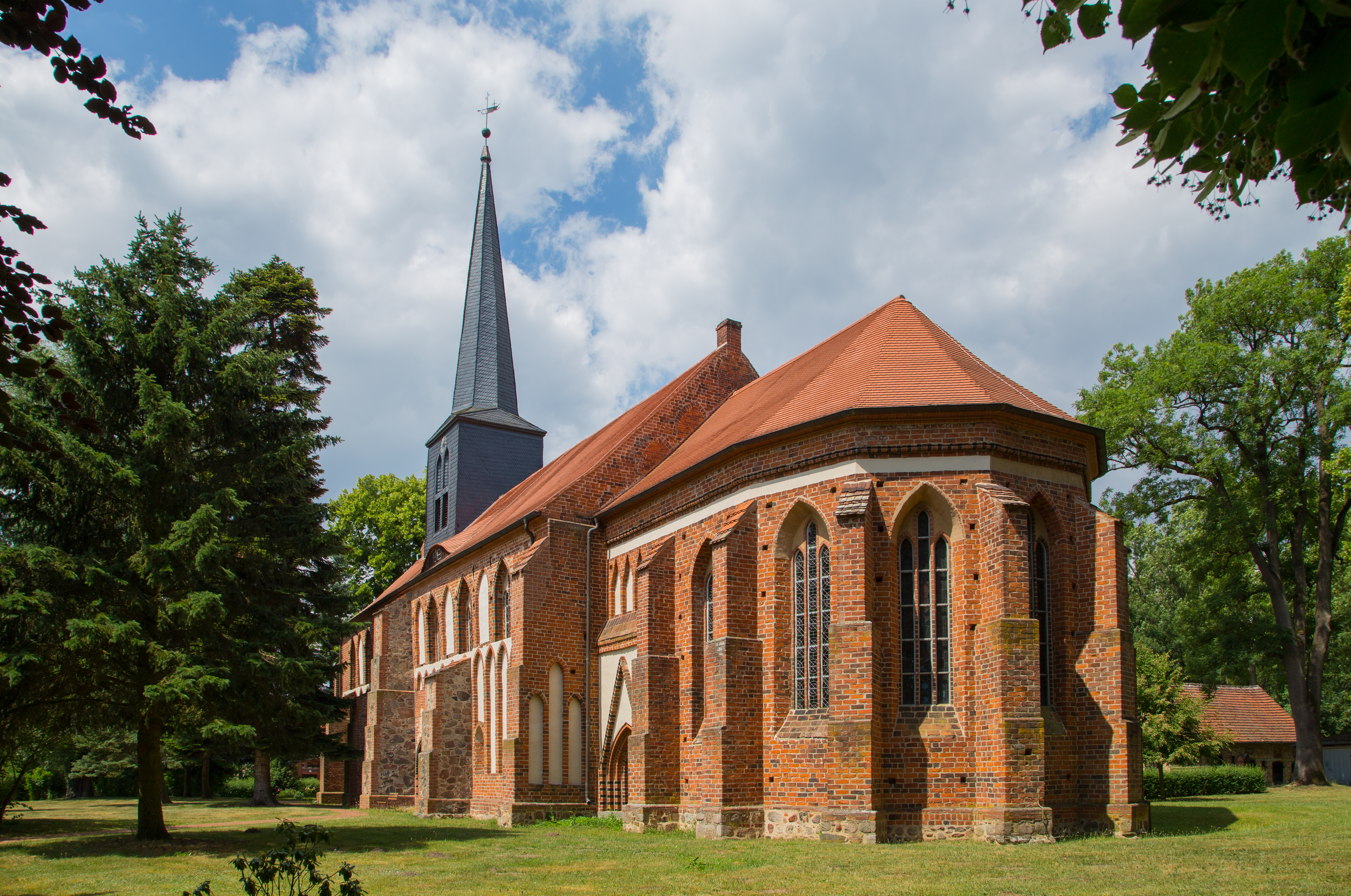 The Monastery Church (Klosterkirche) of the Protestant Stift Marienfließ in Stepenitz, district of Marienfließ, Landkreis Prignitz, Brandenburg, Germany.